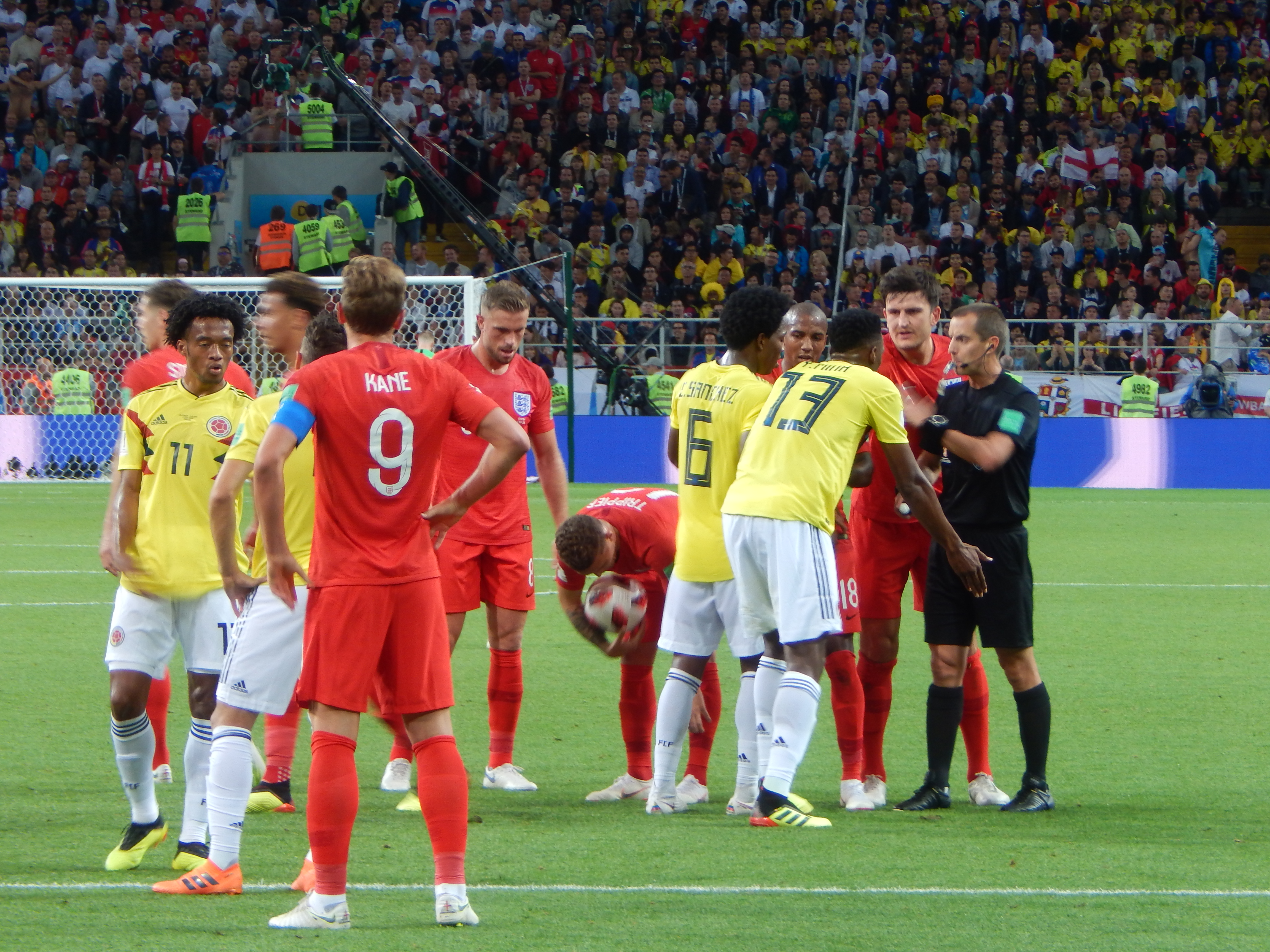 FIFA World Cup 2018, Round of 16, Colombia vs. England